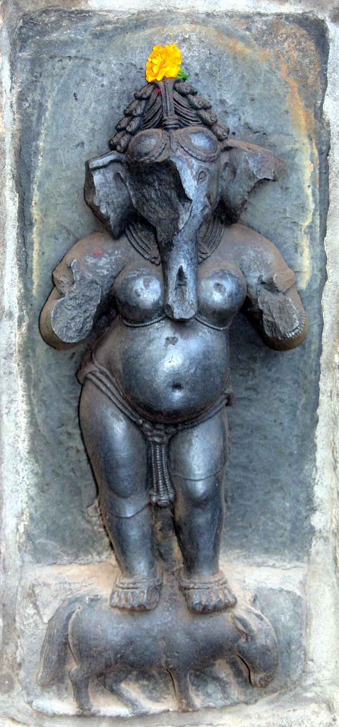 38 pregnant Ganeshani or Vinayaki on burro